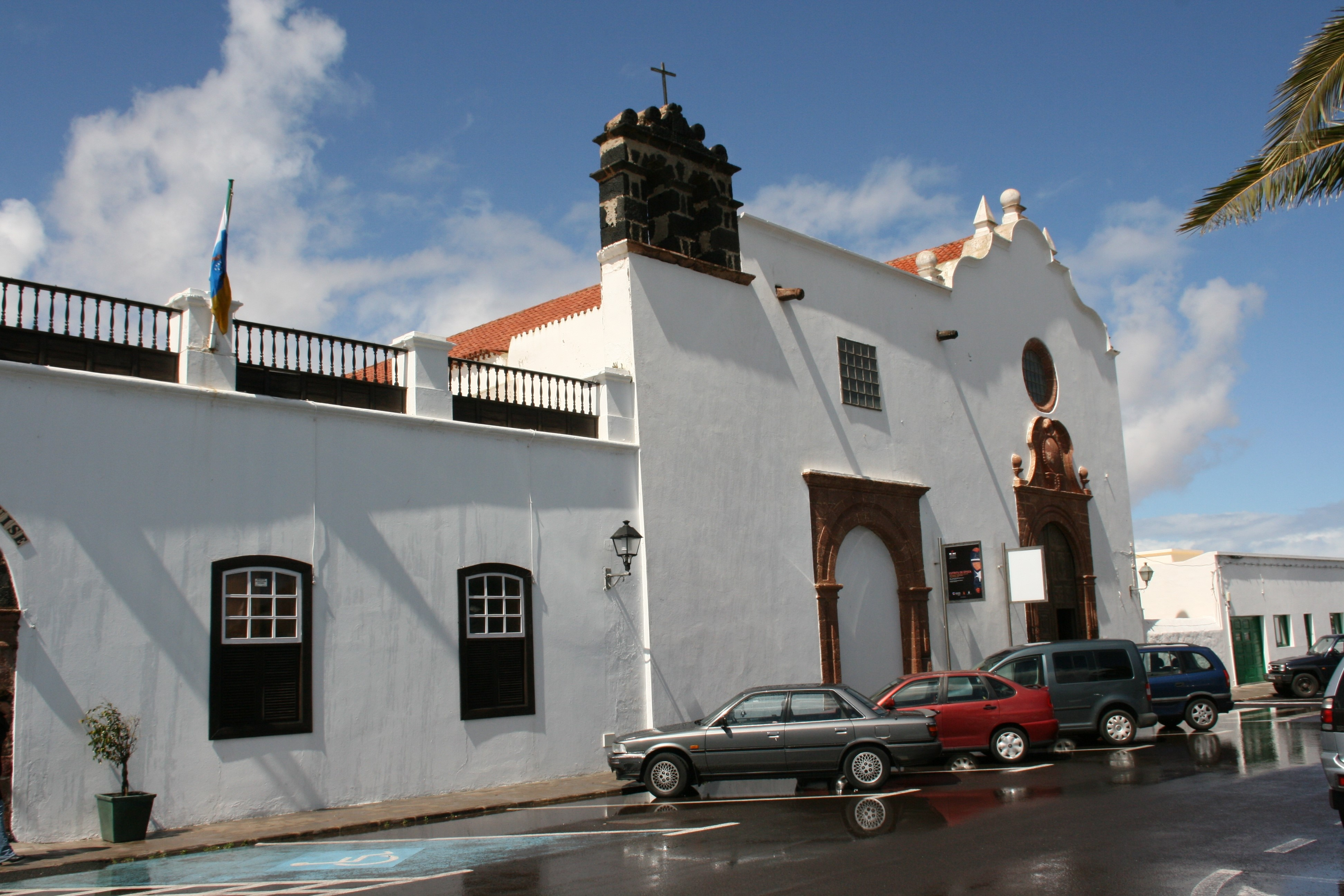 Town hall and Convento de Santo Domingo, Plaza General Franco in Teguise